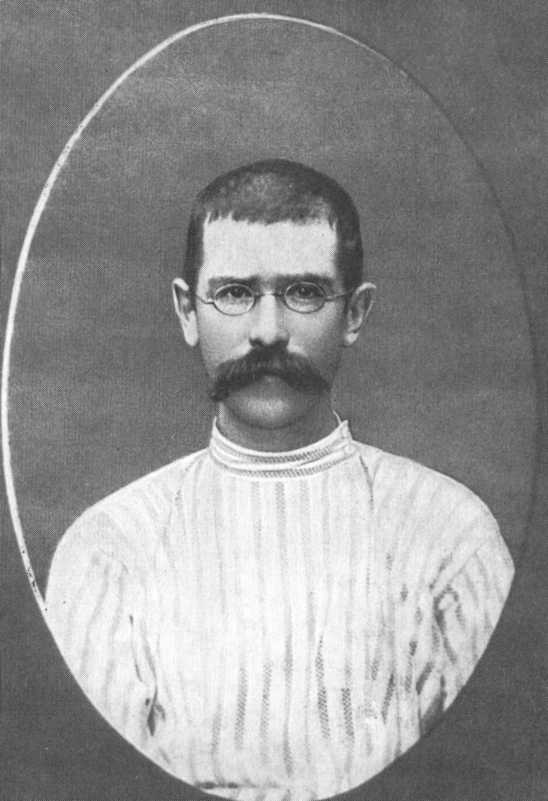 Viktor Nogin in 1904.